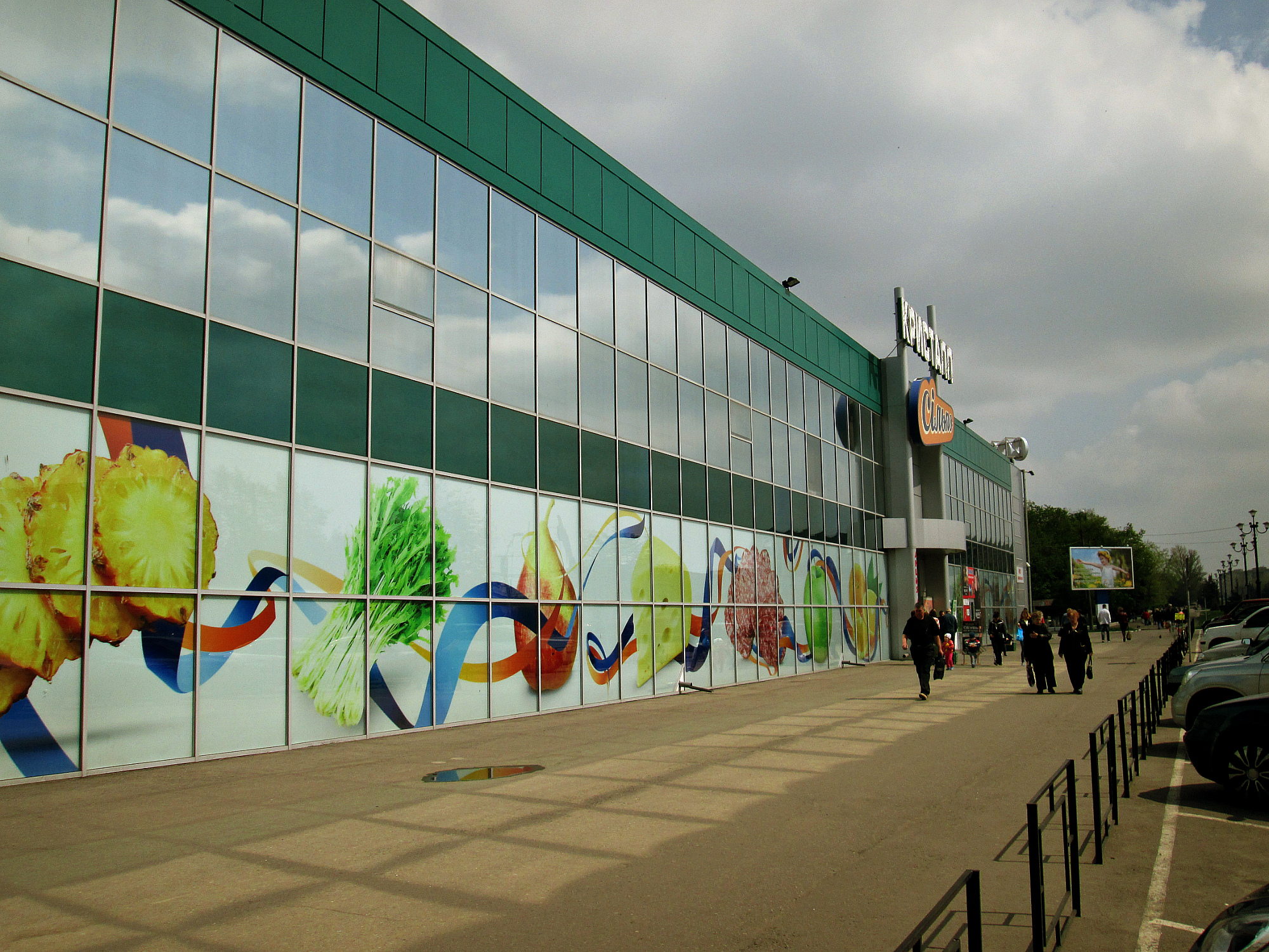 Supermarket "Silpo". This building located in the central square Lysychansk